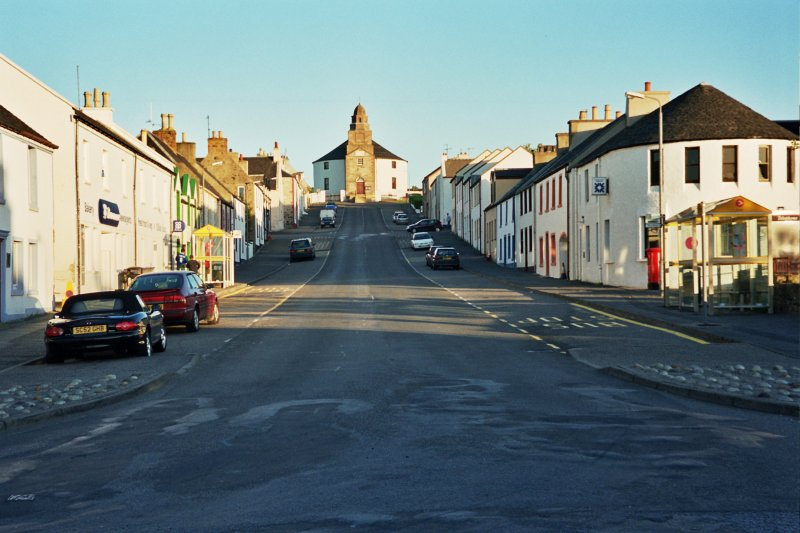 Bowmore mainstreet and Kilarrow Parish Church.